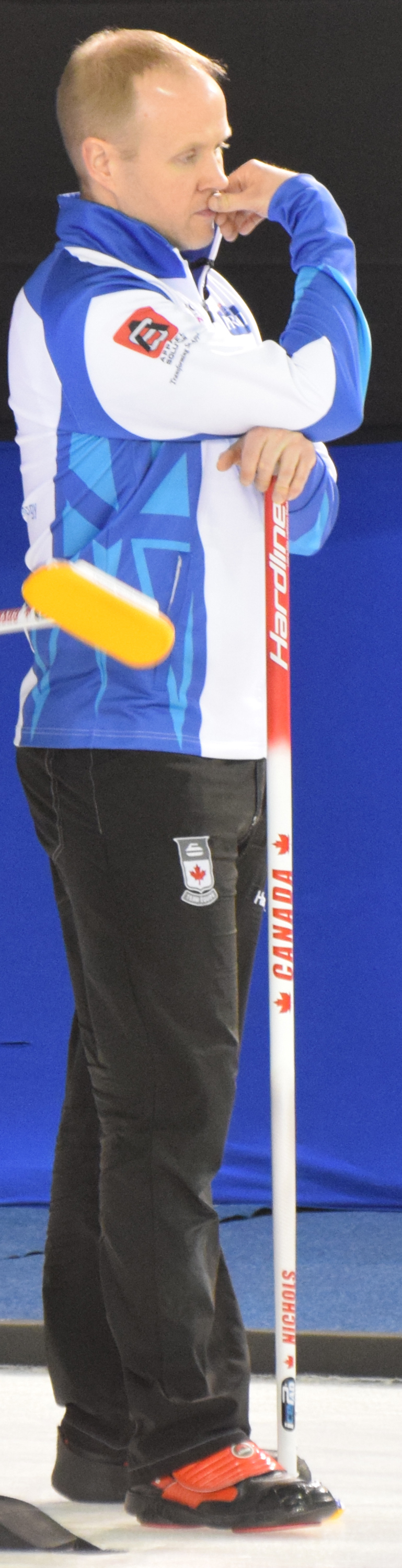 Brad Gushue and third Mark Nichols at the 2018 Elite 10 Grand Slam of Curling even in Winnipeg, Manitoba.